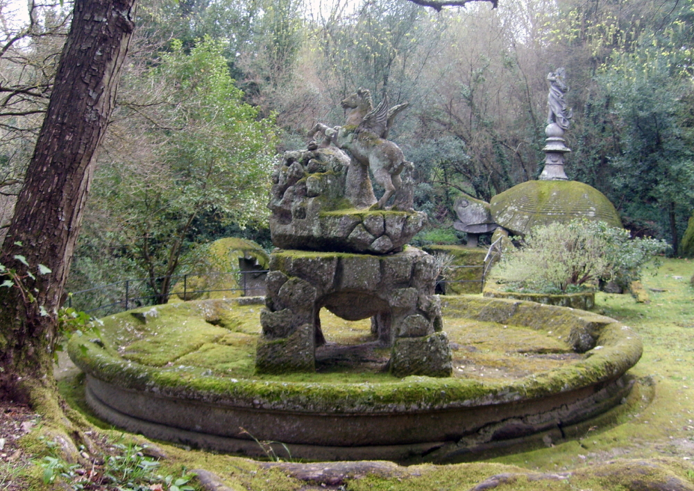 Pegasus fountain, Gardens of Bomarzo, Bomarzo, Italy